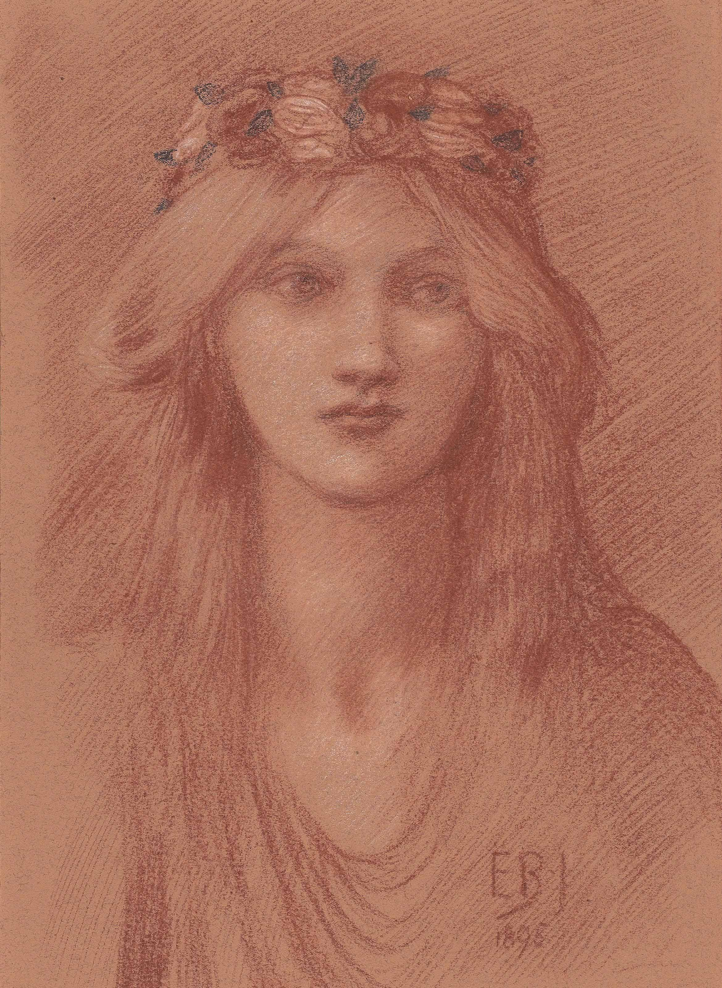 Gwendolen Gascoyne-Cecil (1860-1945) red chalk, heightened with black and white chalk, on sanguine paper 39.4 x 28.9 cm signed b.r.: EBJ / 1895